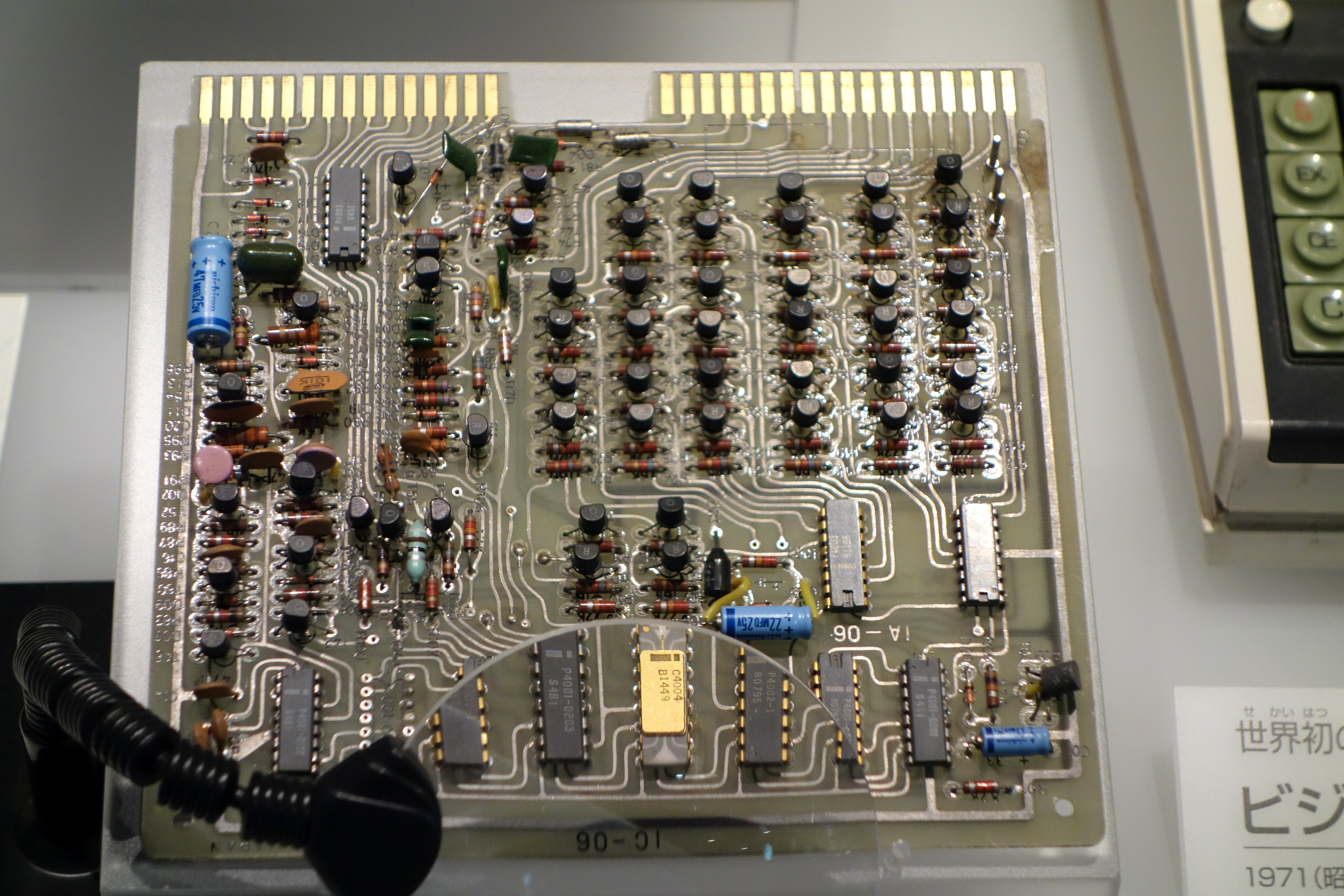 Exhibit in the National Museum of Nature and Science, Tokyo, Japan.